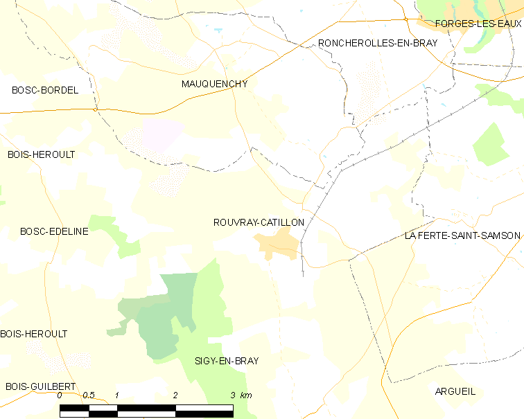 Map of French municipality Rouvray-Catillon